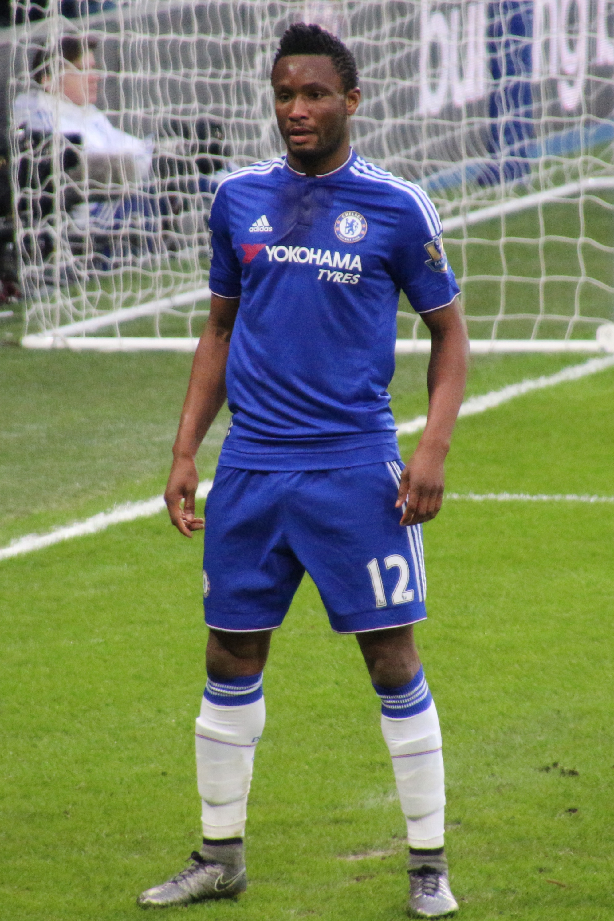 Mikel John Obi playing for Chelsea in 2016